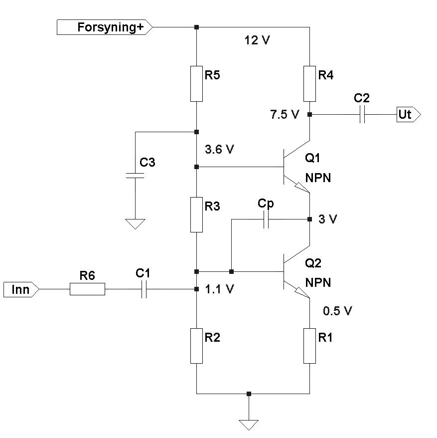 Cascode schematic diagram